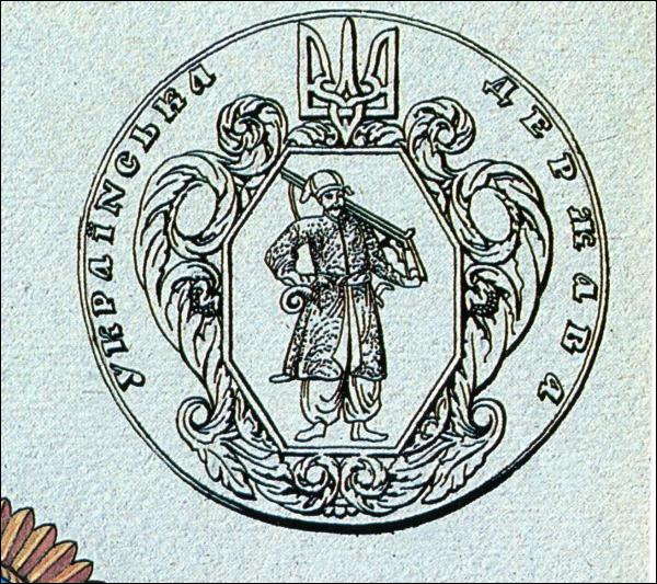 G. I. Narbut. The project of the arms of the Ukrainian State